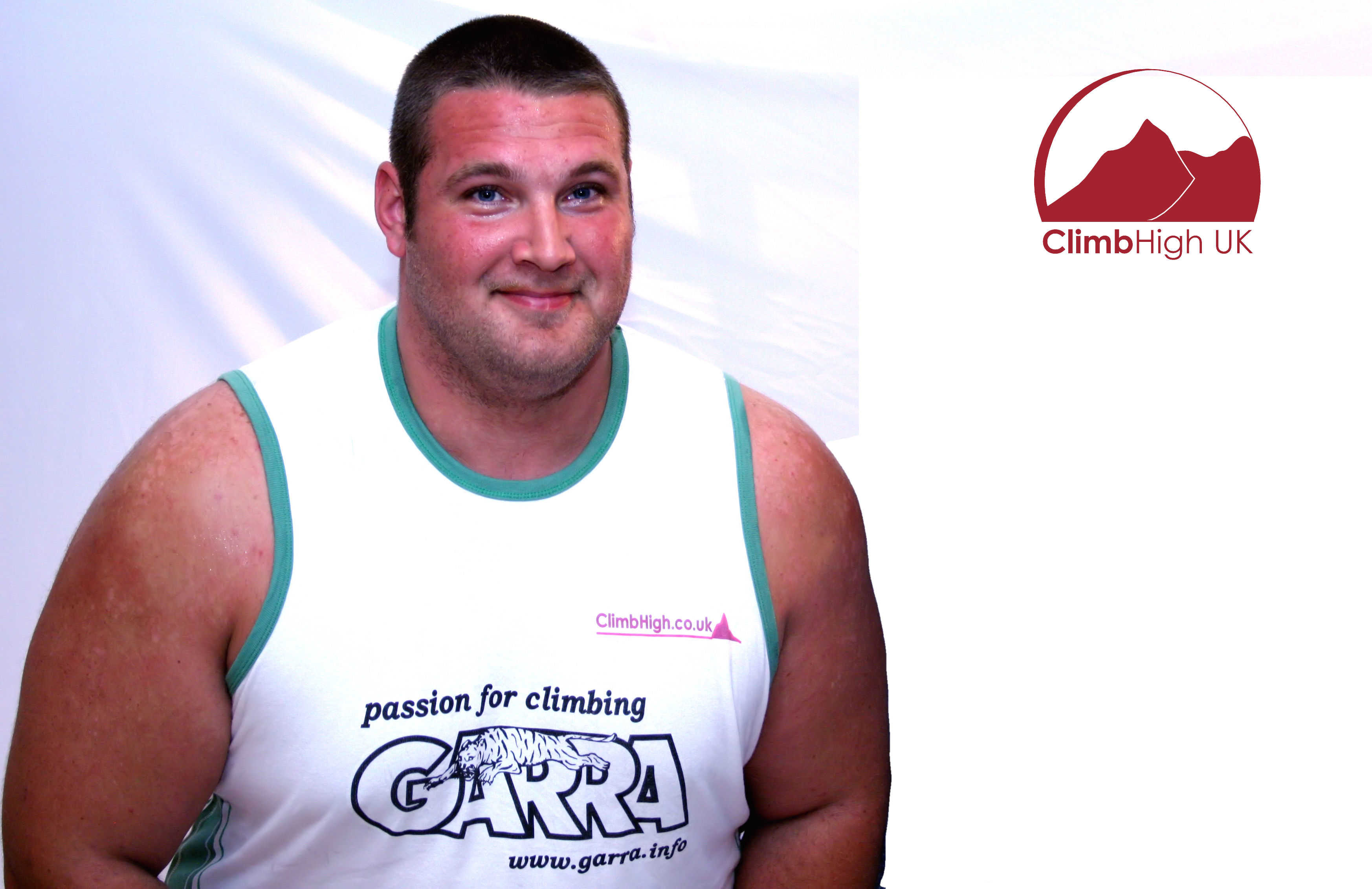 Terry Hollands (a strength athlete from England), UK strongest man, wearing a smile and a Garra Climbing Shoes Tee Shirt.